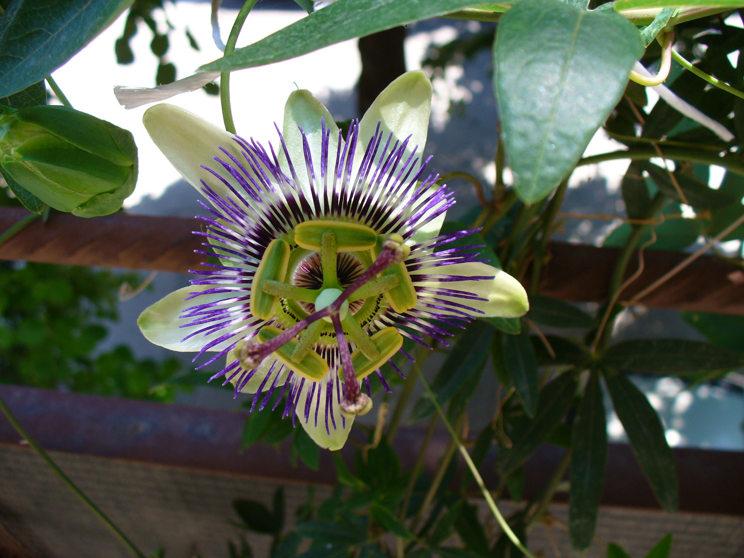 Passiflora Caerulea